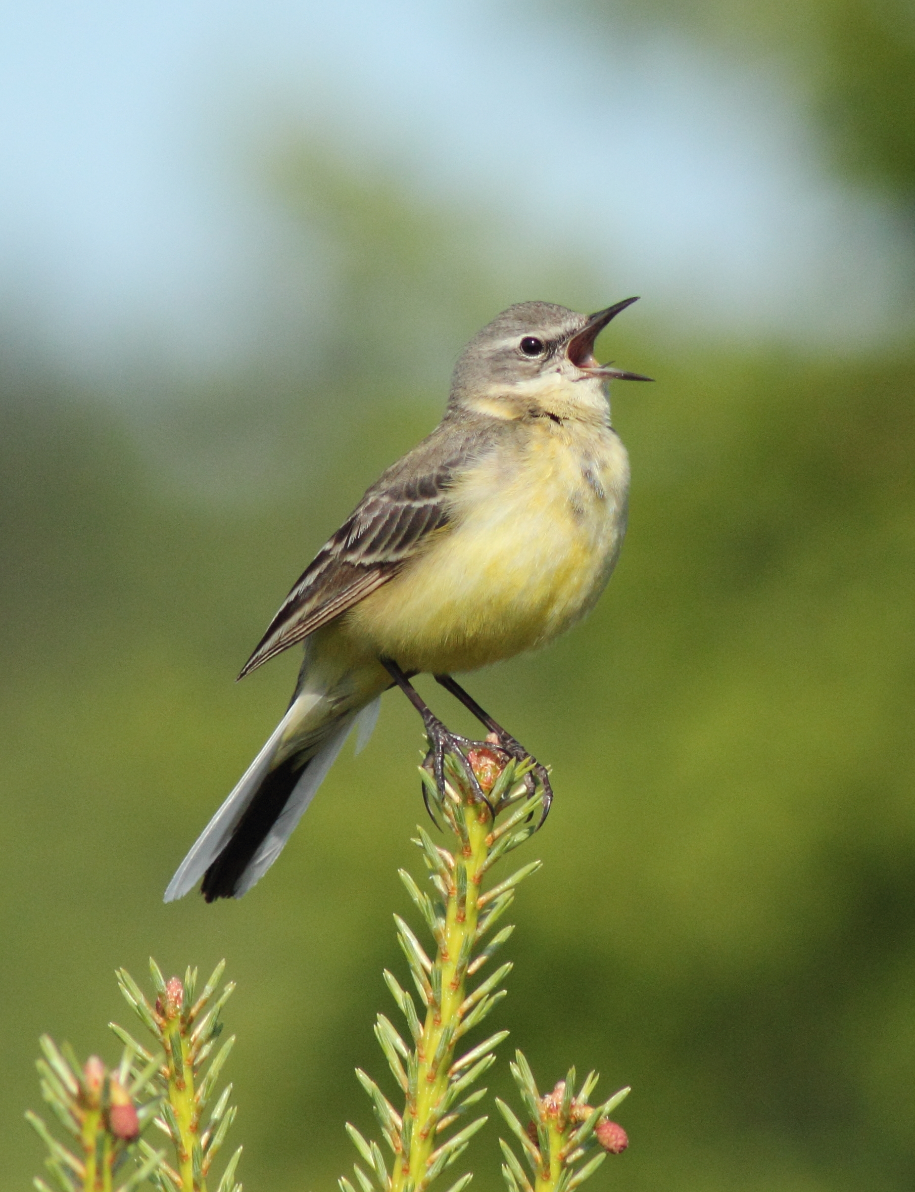 A Yellow Wagtail (Motacilla flava) near Kisakangas, Oulu.